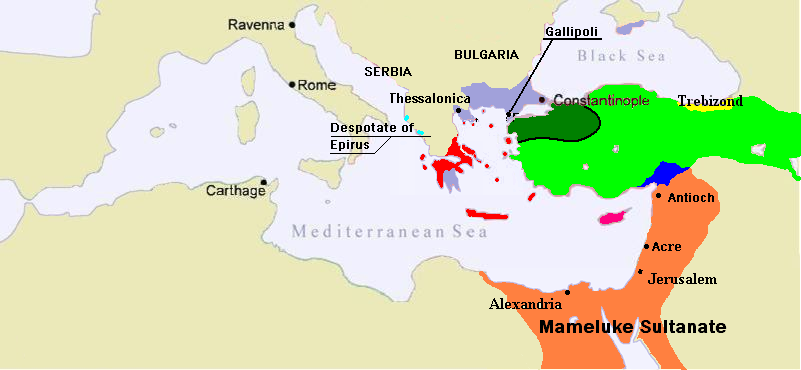 Map of the Middle East c.1350. Byzantium has lost her cities in Asia Minor and Epirus has been reduced significantly by Serbia. Ottoman lands are in dark green; other Turks in light green and purple Byzantium. Blue (uncertain borders) is Cilicia. Red are Latin holdings.